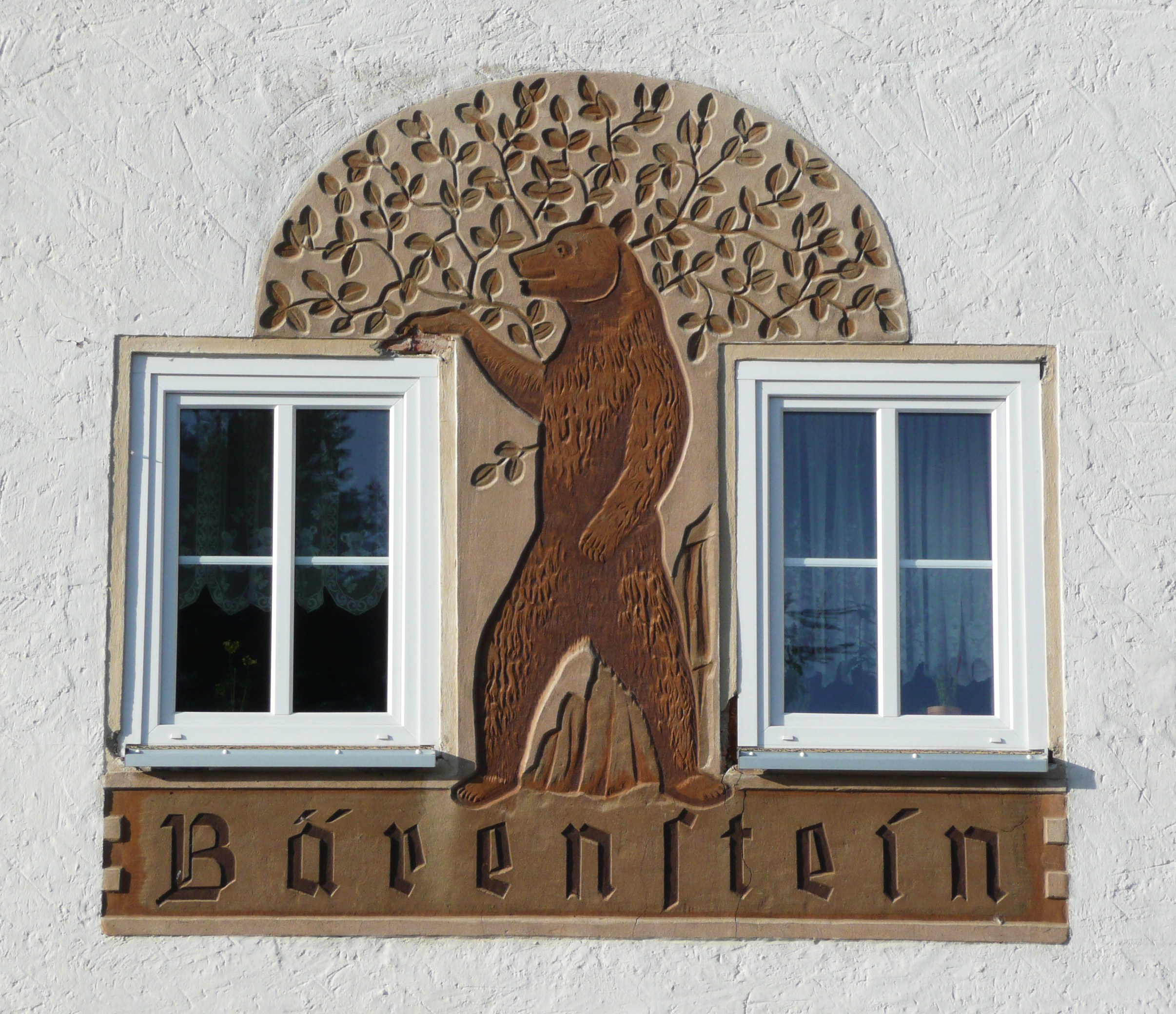 This image shows a detail of the station in Bärenstein (railway Heidenau - Altenberg (Müglitztalbahn)).